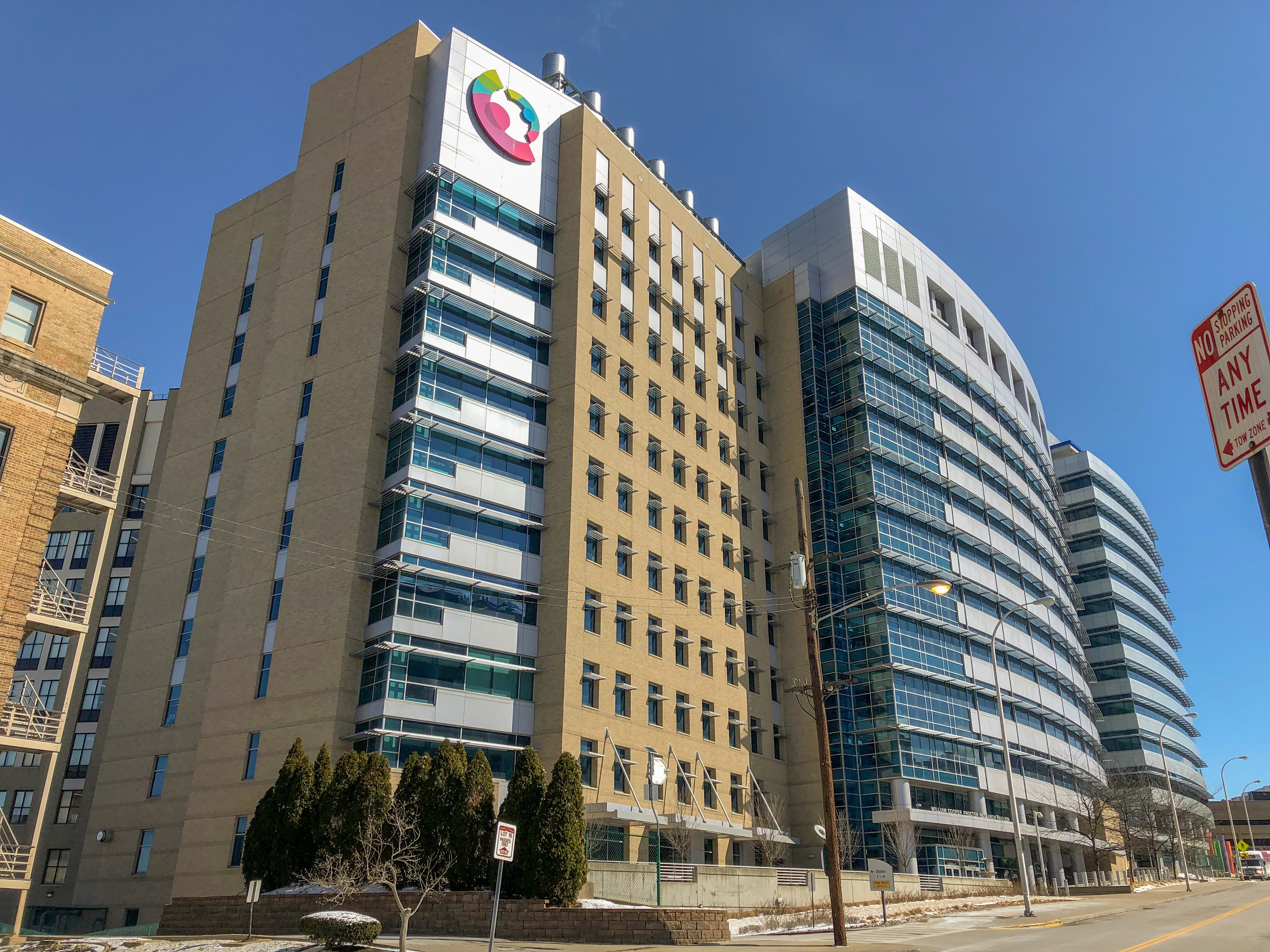 William Cooper Procter Pavilion, Cincinnati Children's Hospital, Corryville, Cincinnati, OH